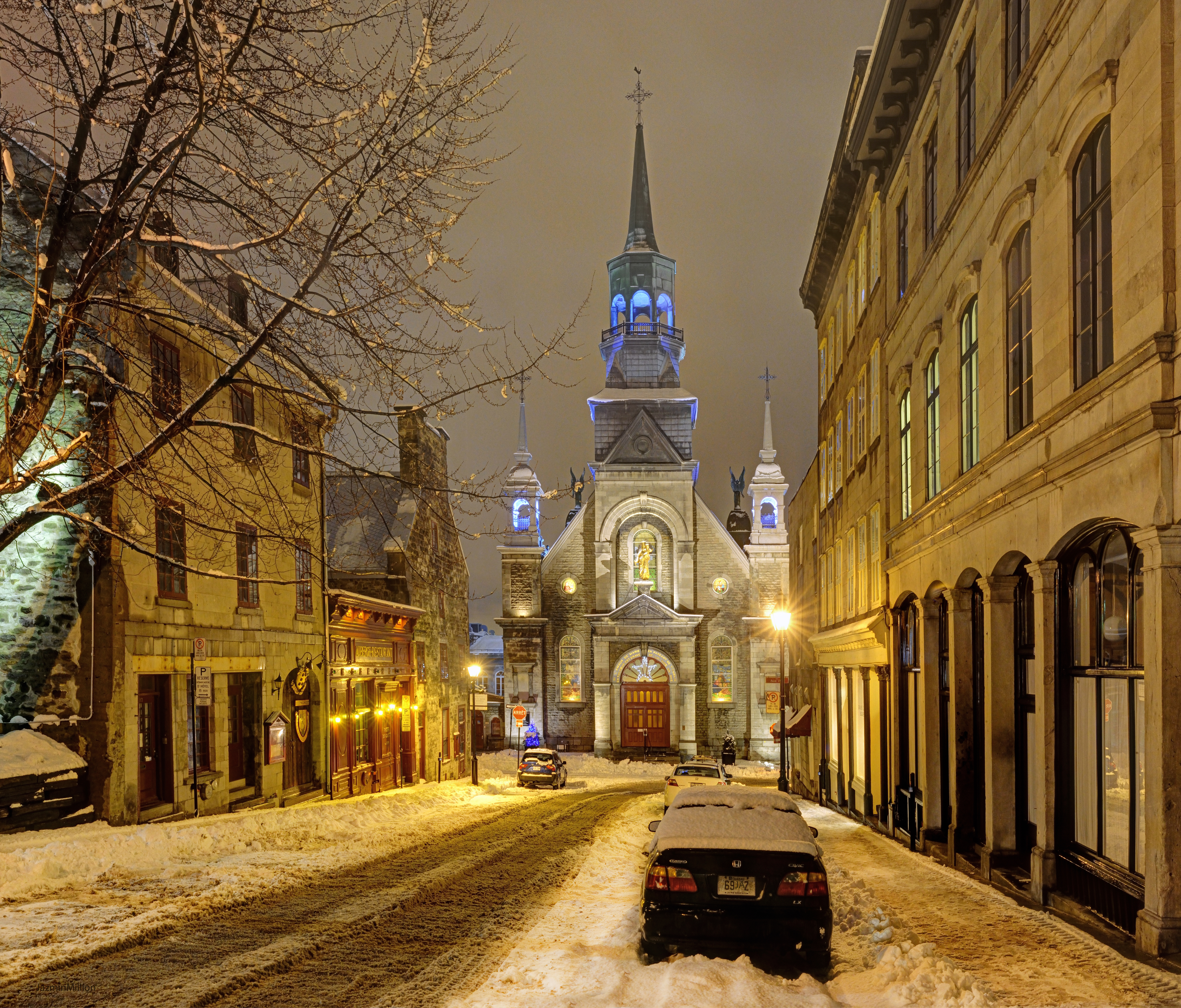 HDR, Panoramic mad from 150 images. ISO 6400, F16 Chapelle Notre-Dame-de-Bon-Secours, Vieux port. (Montréal, Québec, CANADA) The Notre-Dame-de-Bon-Secours Chapel (chapelle Notre-Dame-de-Bon-Secours, "Our Lady of Good Help") is a church in the district of Old Montreal in Montreal, Quebec. One of the oldest churches in Montreal, it was built in 1771 over the ruins of an earlier chapel. The church is located at 400 Saint Paul Street East at Bonsecours Street, just north of the Bonsecours Market in the borough of Ville-Marie (Champ-de-Mars metro station).